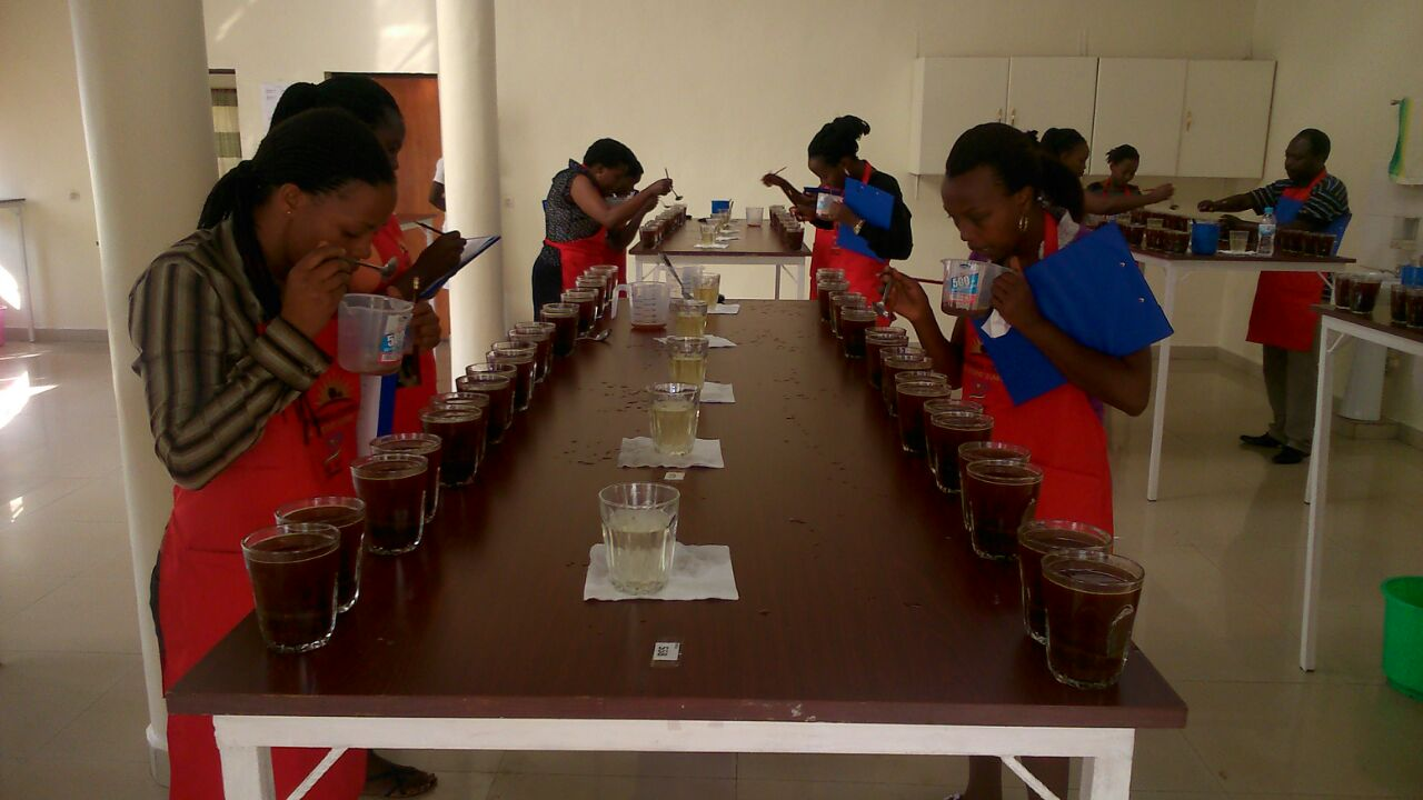 These are trained coffee cuppers from Rwanda conducting a cupping session intended to select the best coffee in the country. This has been their work since more than ten years and many of them are feeding their family from this activity which becoming an attractive profession in a country like Rwanda where coffee is a leading agriculture export. Interestingly, most of them are women. it is believed that due to their inherited skill of attention to detail help them to detect little differences in coffee cups. This is an image of "African people at work" from Rwanda